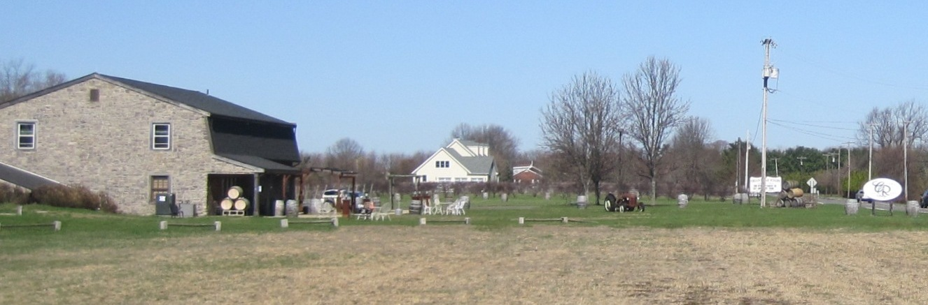 Photo showing the side of the main building and front yard of the Cream Ridge Winery in Upper Freehold Township, New Jersey